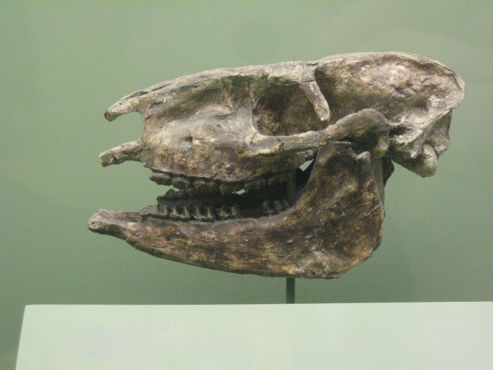 28 million years old Late Oligocene